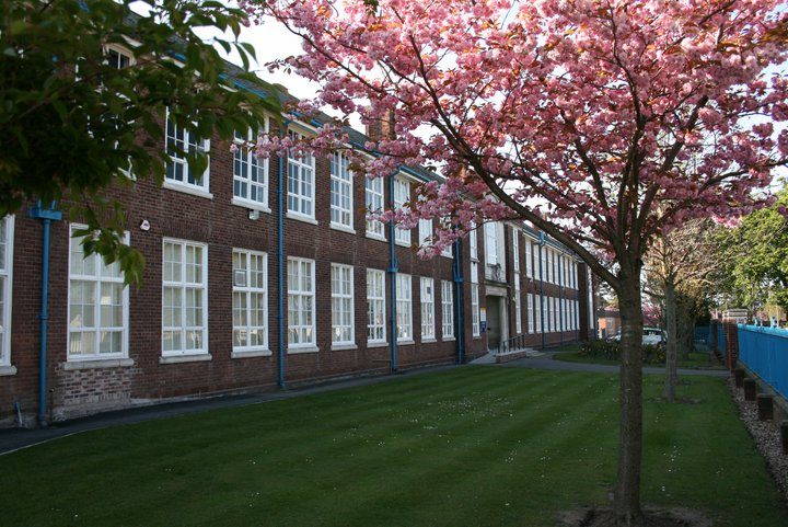 A view from the Cross lane end of Wirral Grammar School for Boys, Cross Lane, Bebington